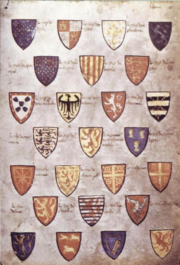 An image of the Armorial Wijnbergen.